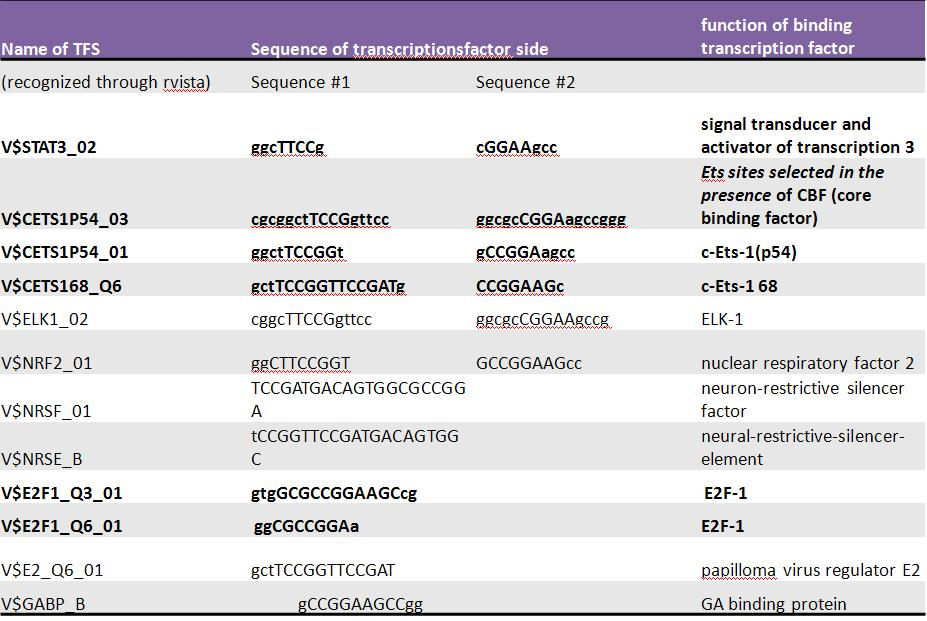 This table shows the predicted transcription binding sites for the promoter region of RMND5B.